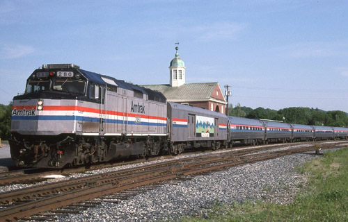 The Vermonter at White River Junction station in June 1996